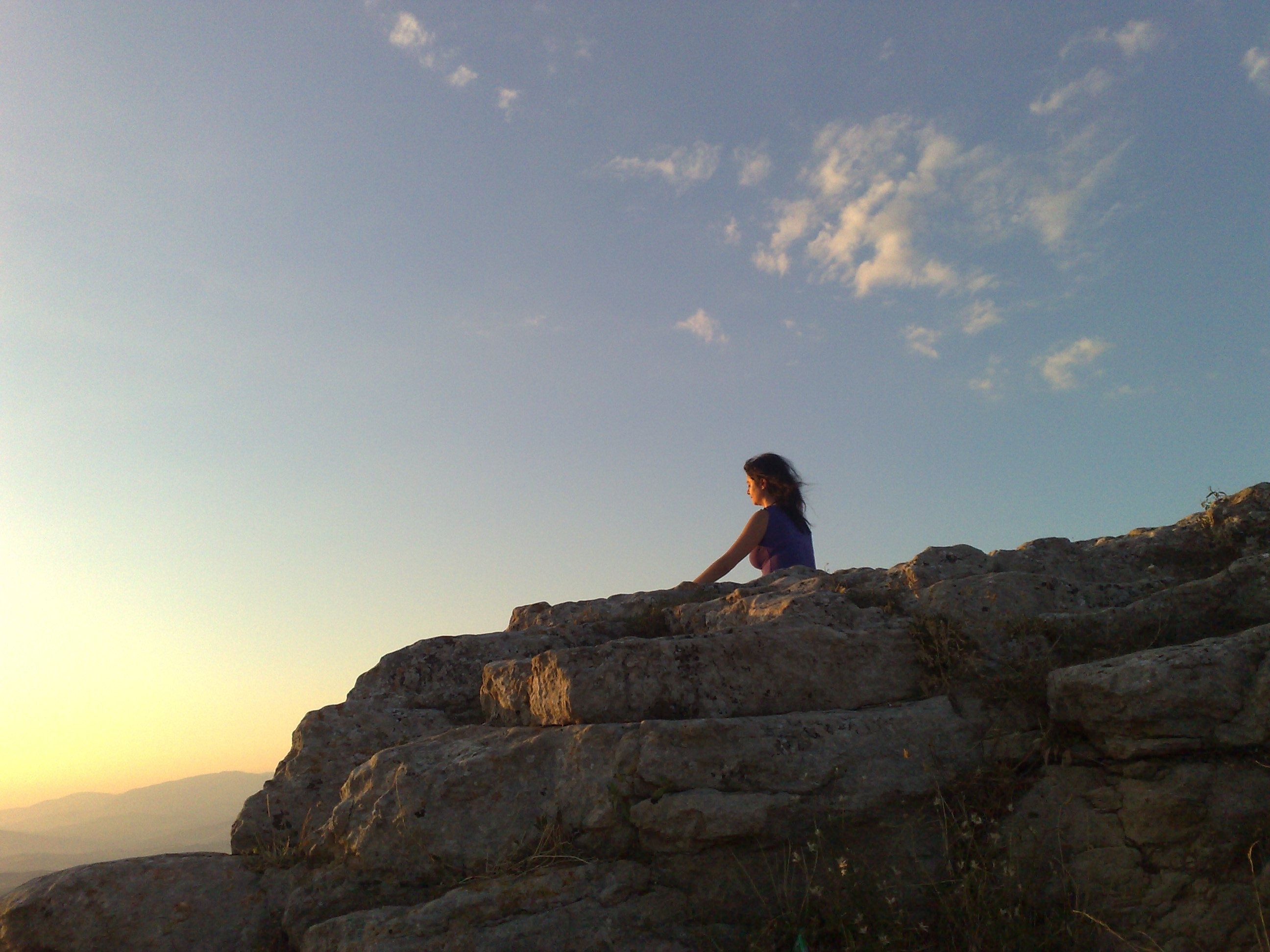 Neopagan meditation in Rocca di Cerere (Enna)